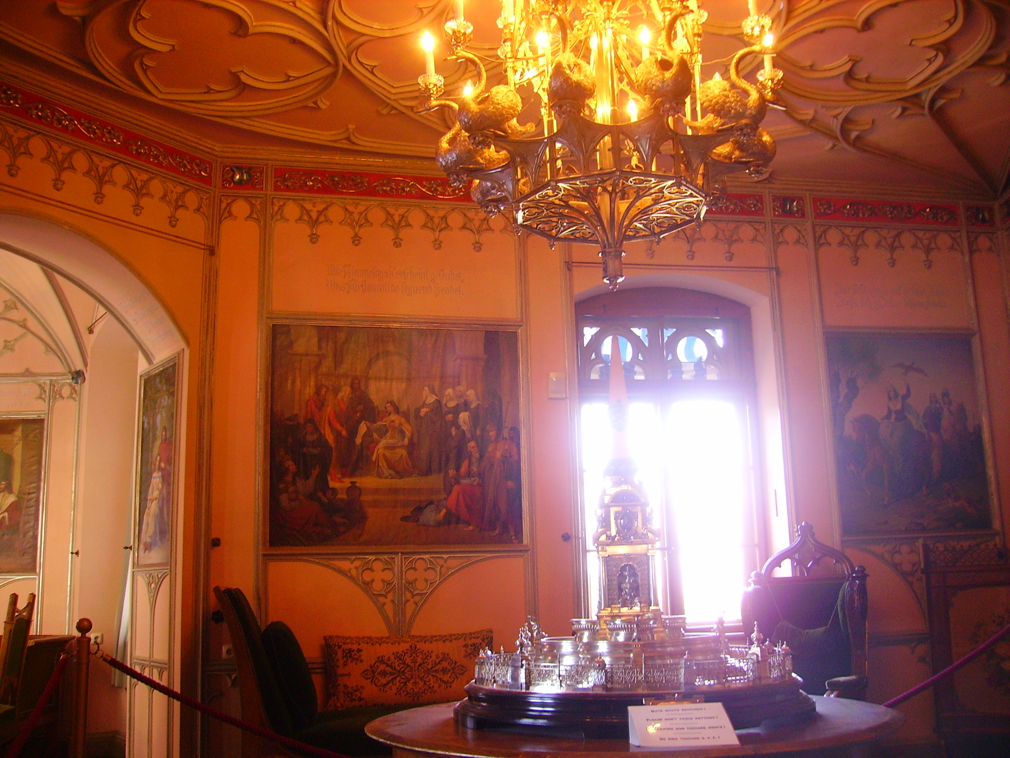 Interior of Hohenschwangau Palace, Schwangau